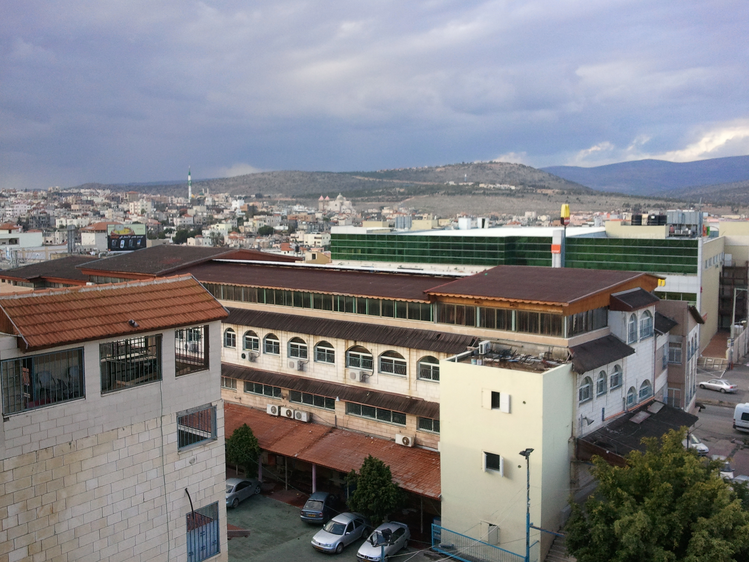 Cities in Israel